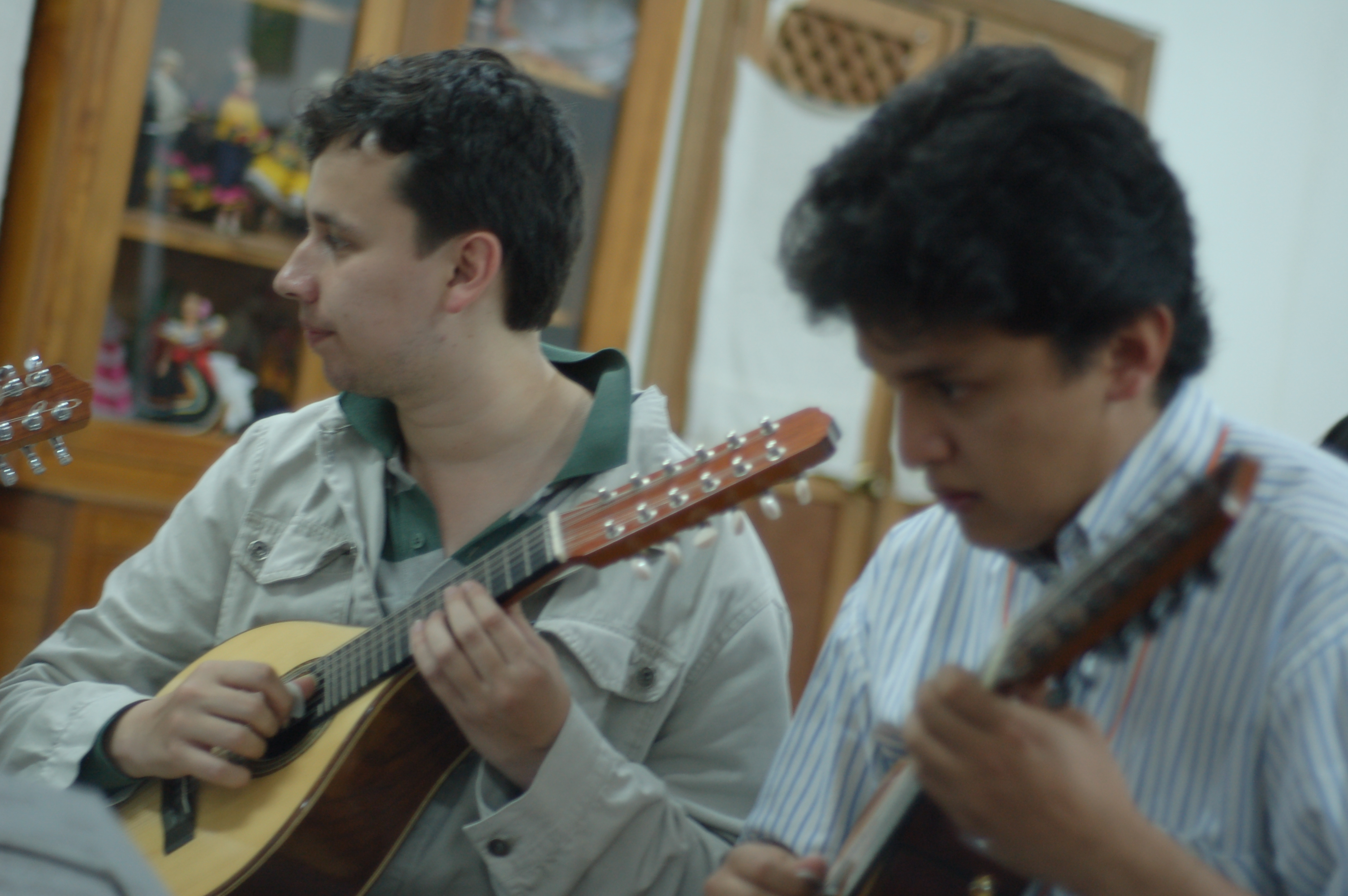 Two musicians playing Bandola Andina Columbiana.